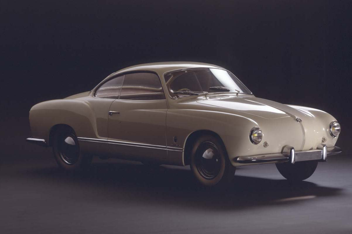 Karmann Ghia Prototype